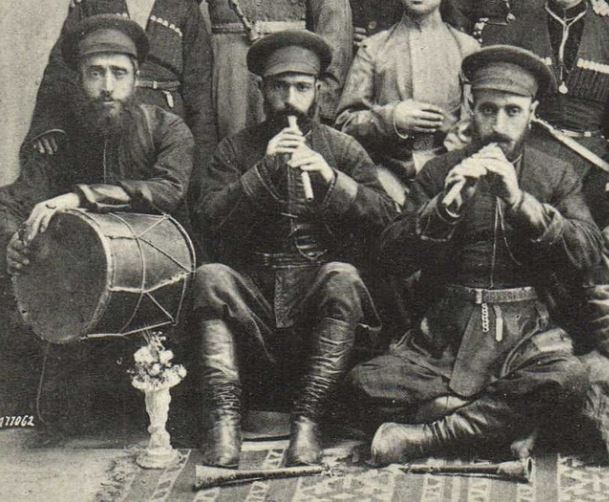 Tatars (Azerbaijanis were called "Tatars") from Aleksandropol (nowadays Gyumri)